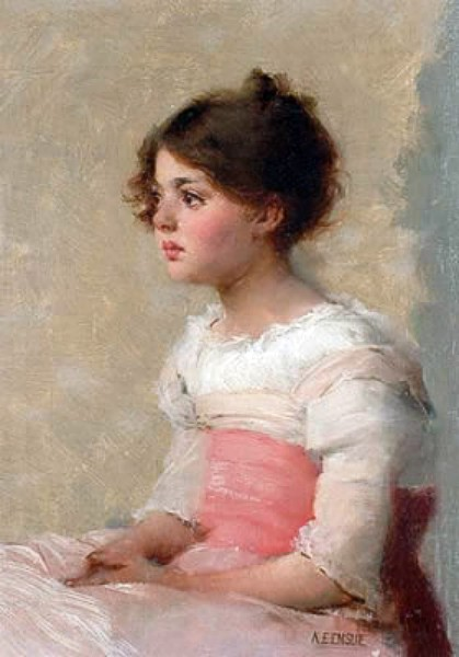 Portrait of a beautiful young girl seated, wearing a white dress with a red sash